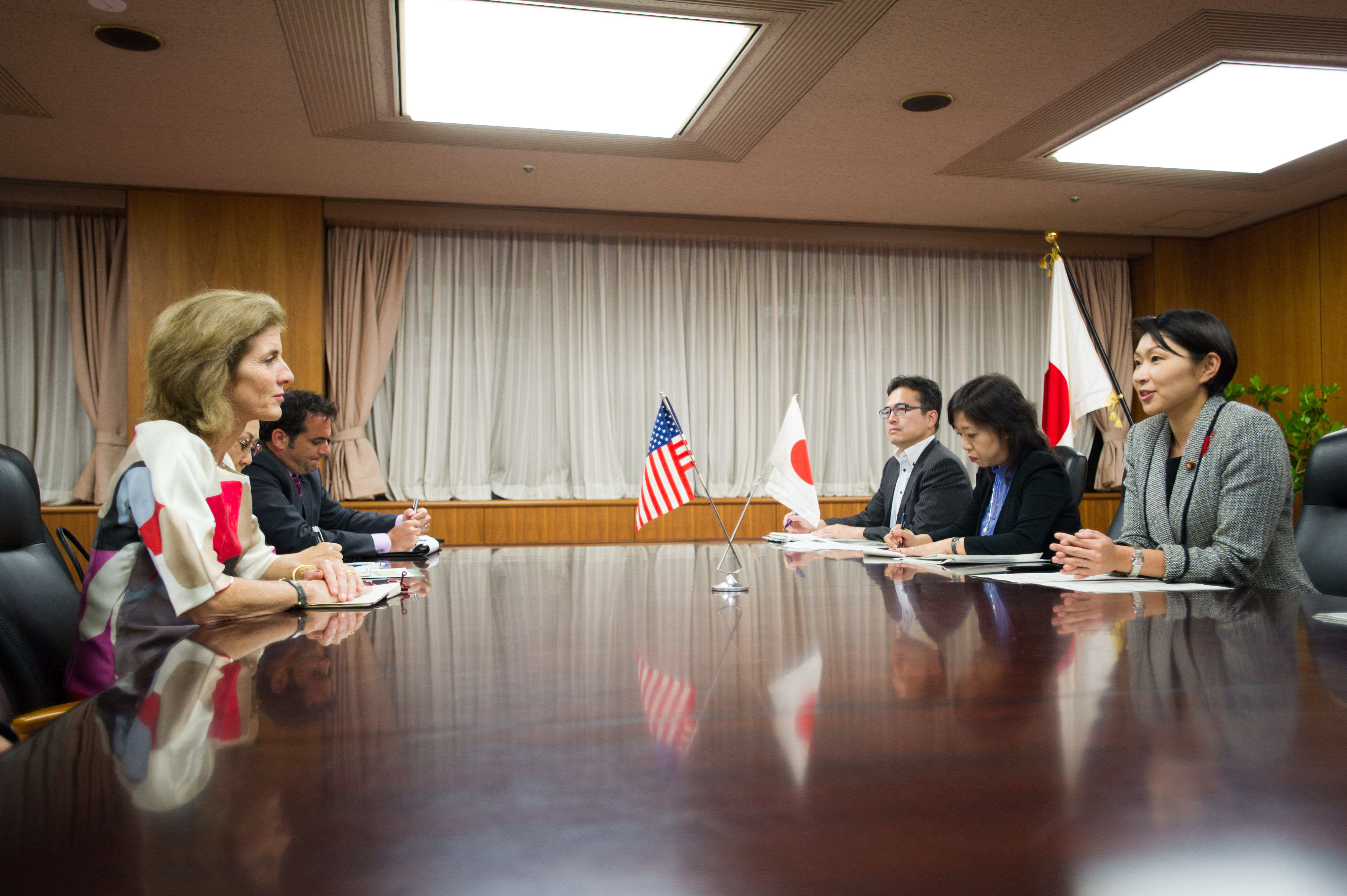 Caroline Kennedy, Ambassador to Japan, met Yūko Obuchi, Minister of Economy, Trade and Industry, at the Ministry of Economy, Trade and Industry in Chiyoda Ward, Tōkyō Metropolis on October 14, 2014.